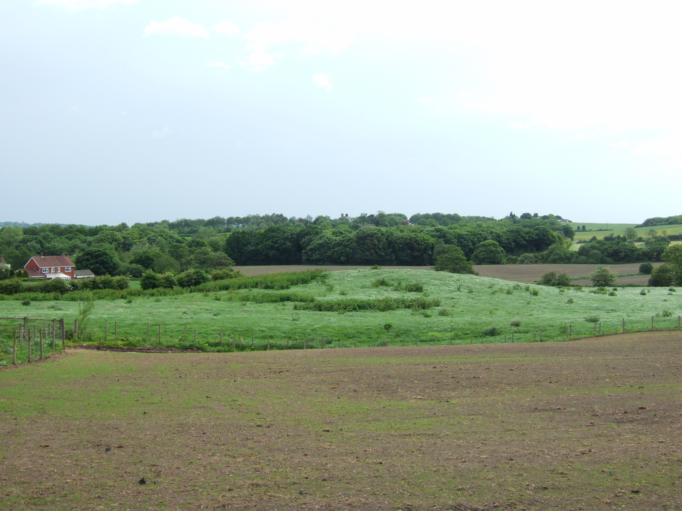 Boar's Den Tumulus in Wrightington, Lancashire, which is believed to be a Bronze Age round barrow.